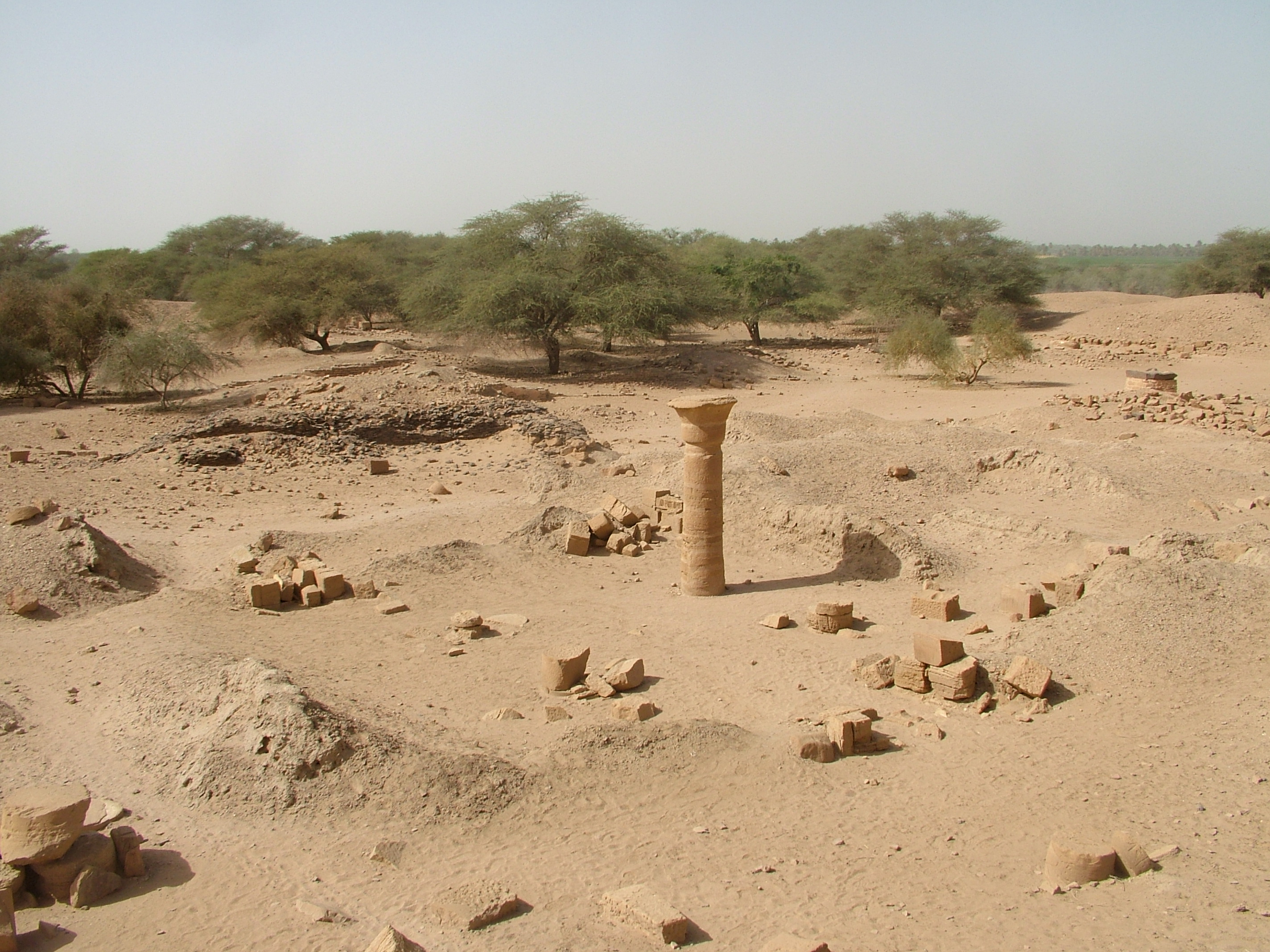 Ruins of the royal city in Meroe, Nubia, Sudan